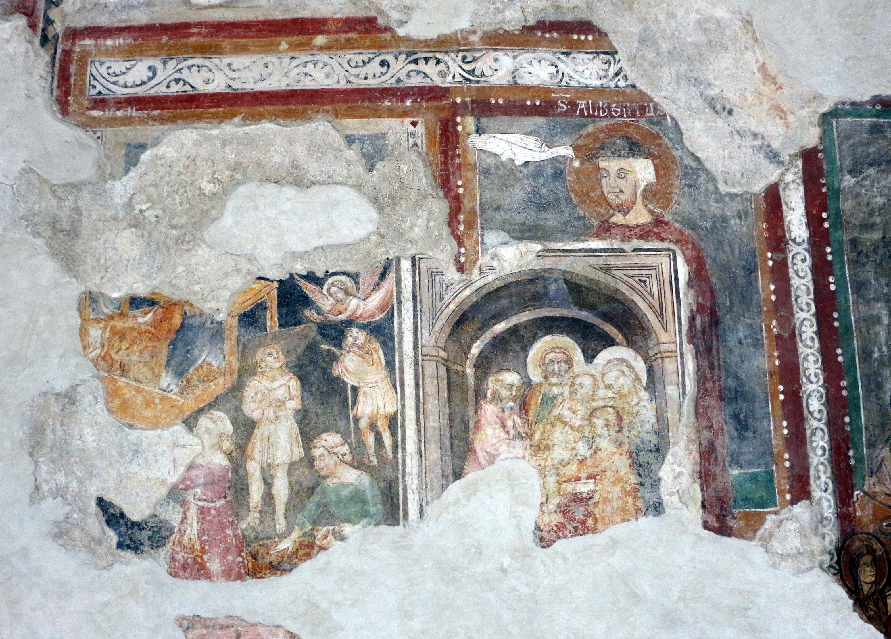 San Michele al Pozzo Bianco